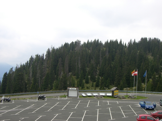 Villacher Alpenstraße: Parking area at the Rosstratte, the endpoint of the street